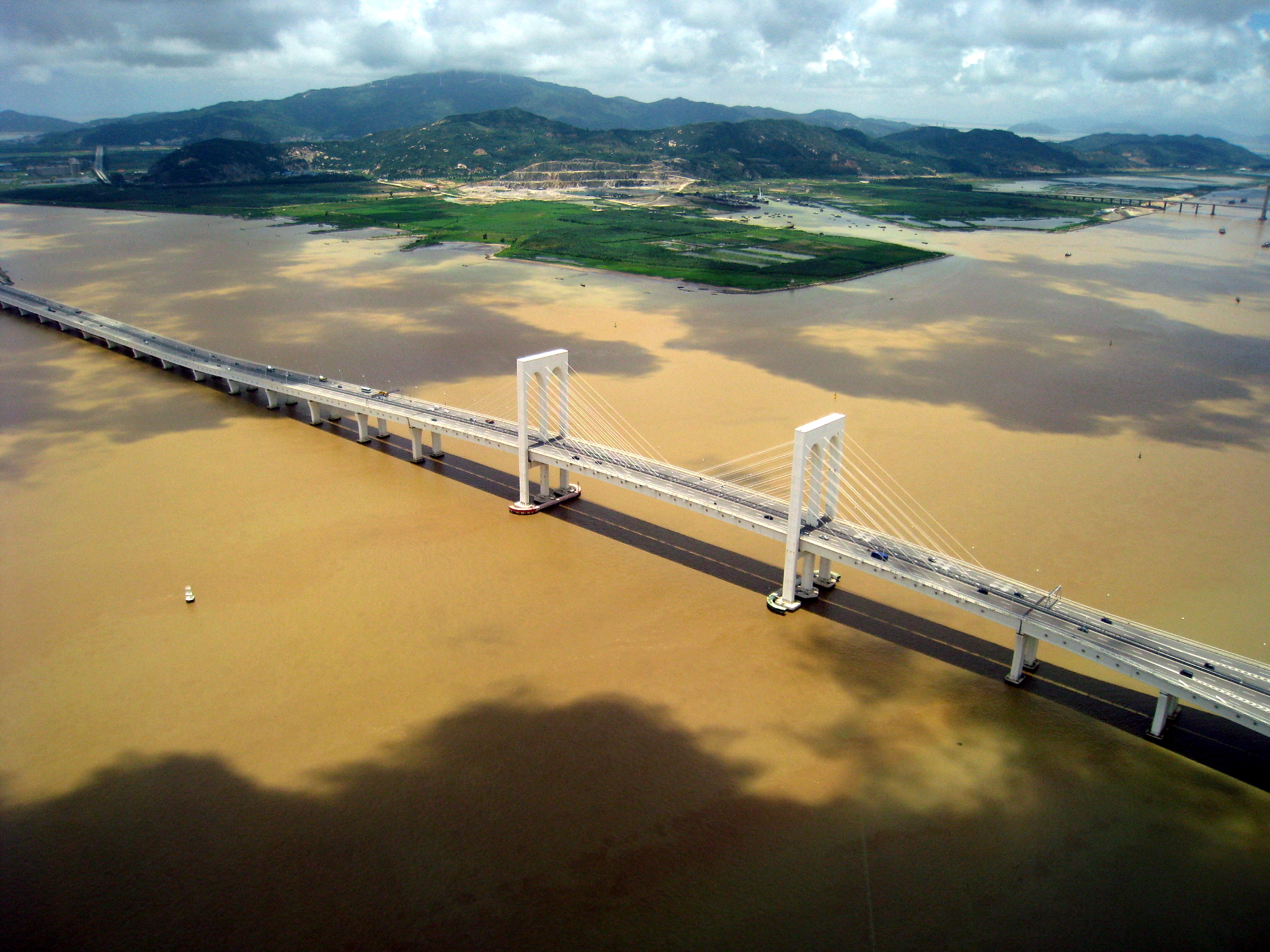 Ponte de Sai Van; View From Macau Tower, looking roughly south. Hengqin island is in the background.